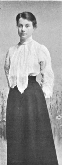 Ethel Thomson Larcombe (1879-1965), English tennis player, 1912 Wimbledon champion